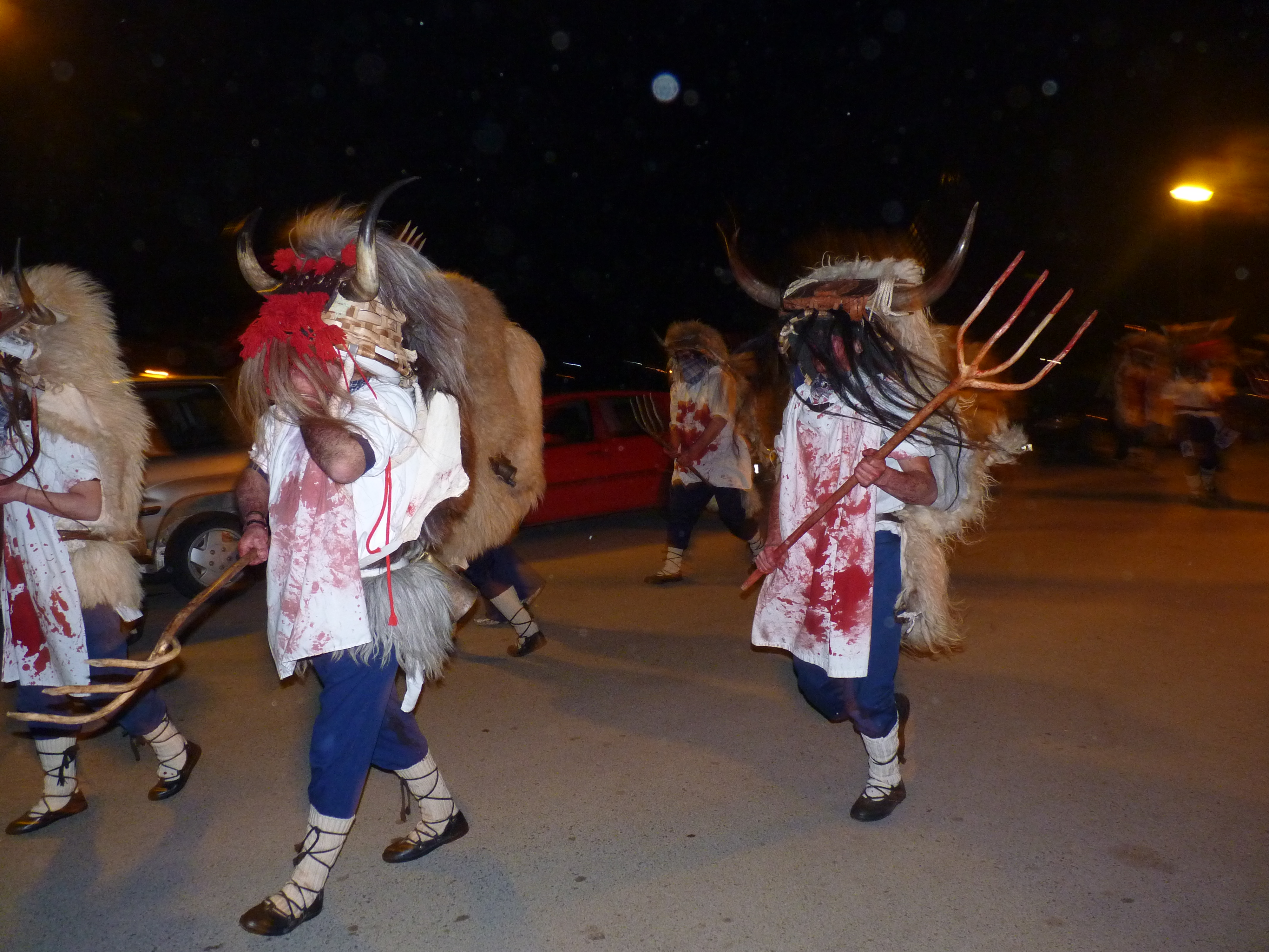 Momotxorroak in Altsasu